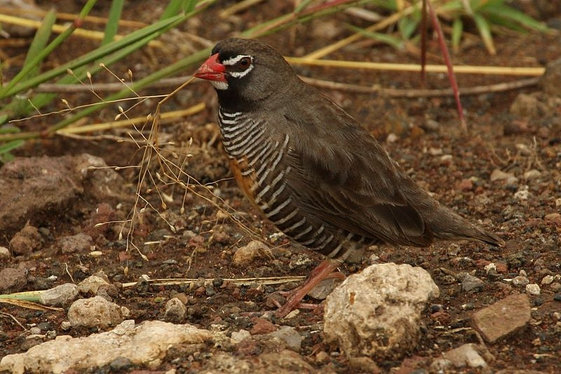 An Ortygospiza species at Ngorongoro Conservation Area, Tanzania.